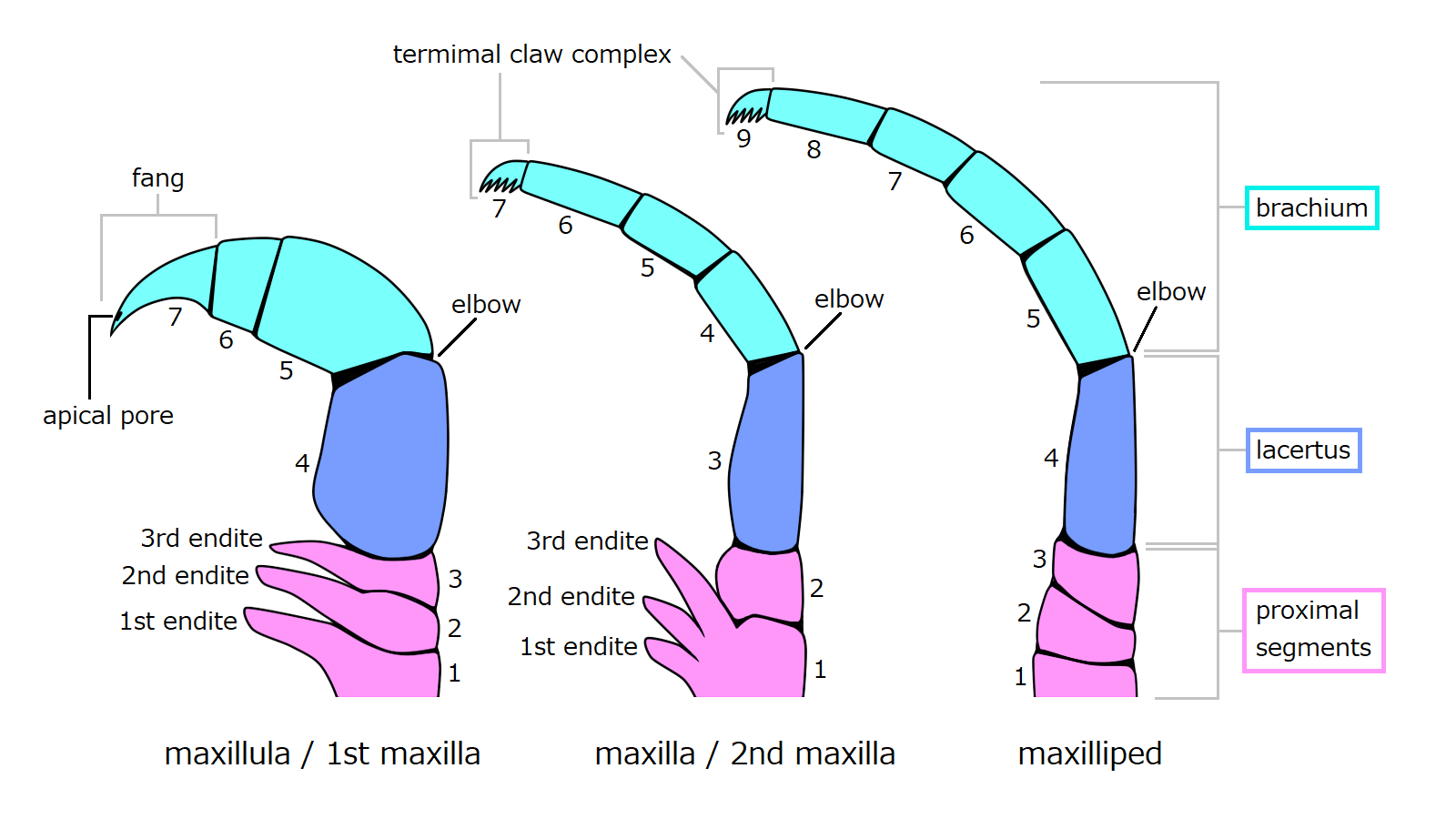 Generalized maxillula (1st maxilla), maxilla (2nd maxilla) and maxilliped of a nectiopodan remipede (Remipedia: Nectiopoda).